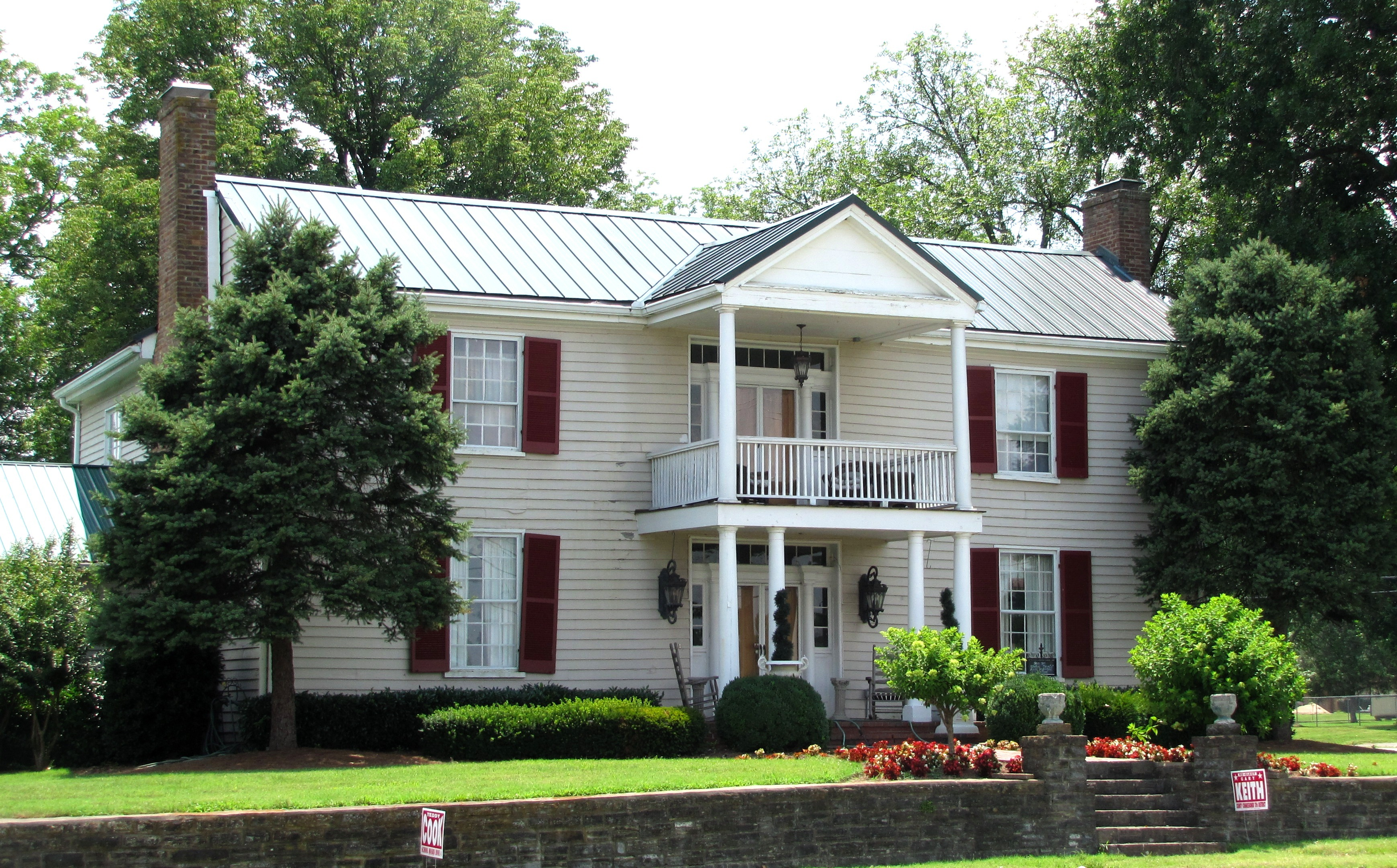 The John Owen Campbell House, built in 1842 by B. W. G. Winford, in Lebanon, Tennessee, USA.